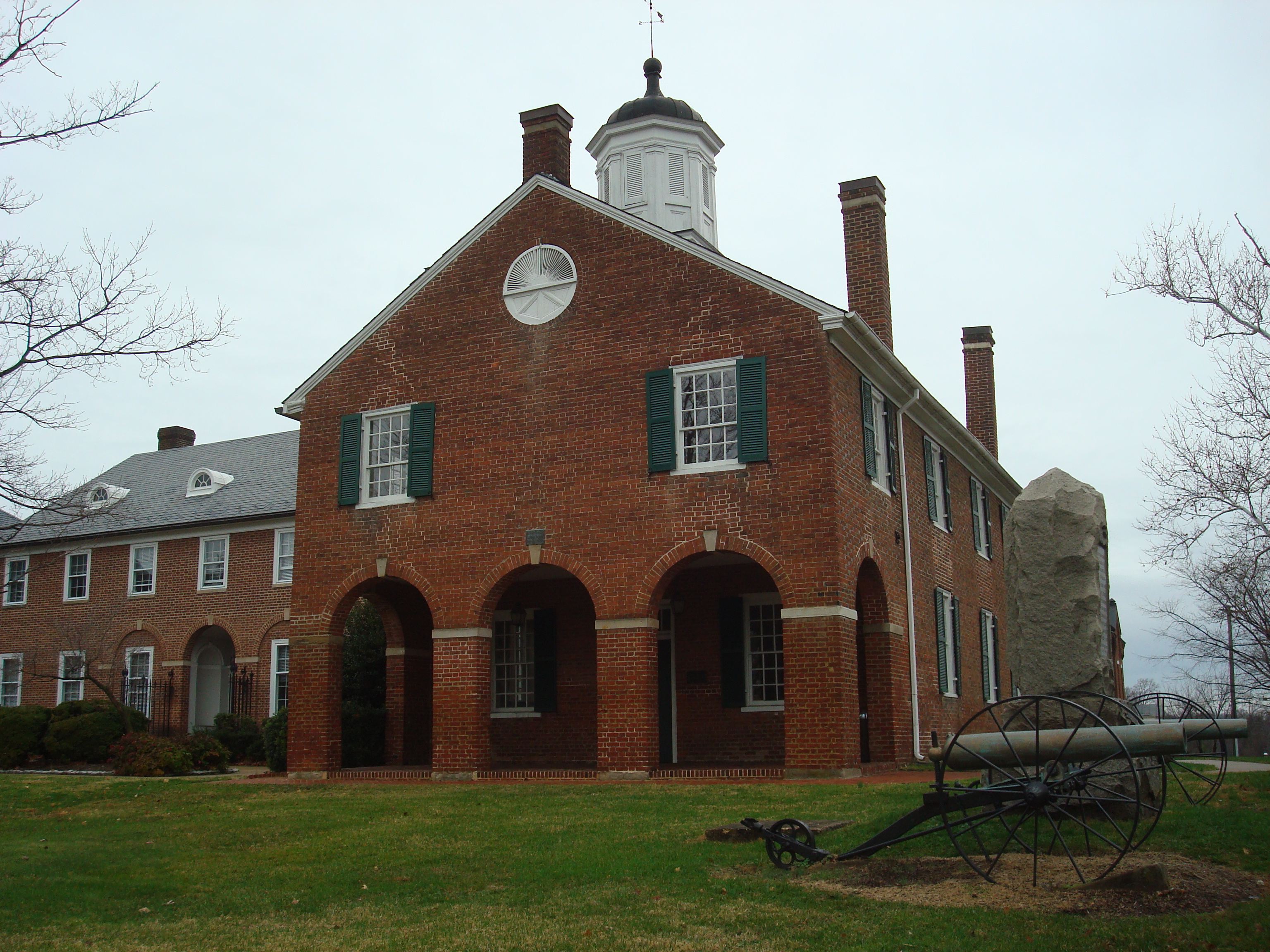 Outside view of the Fairfax County Courthouse, Fairfax, VA